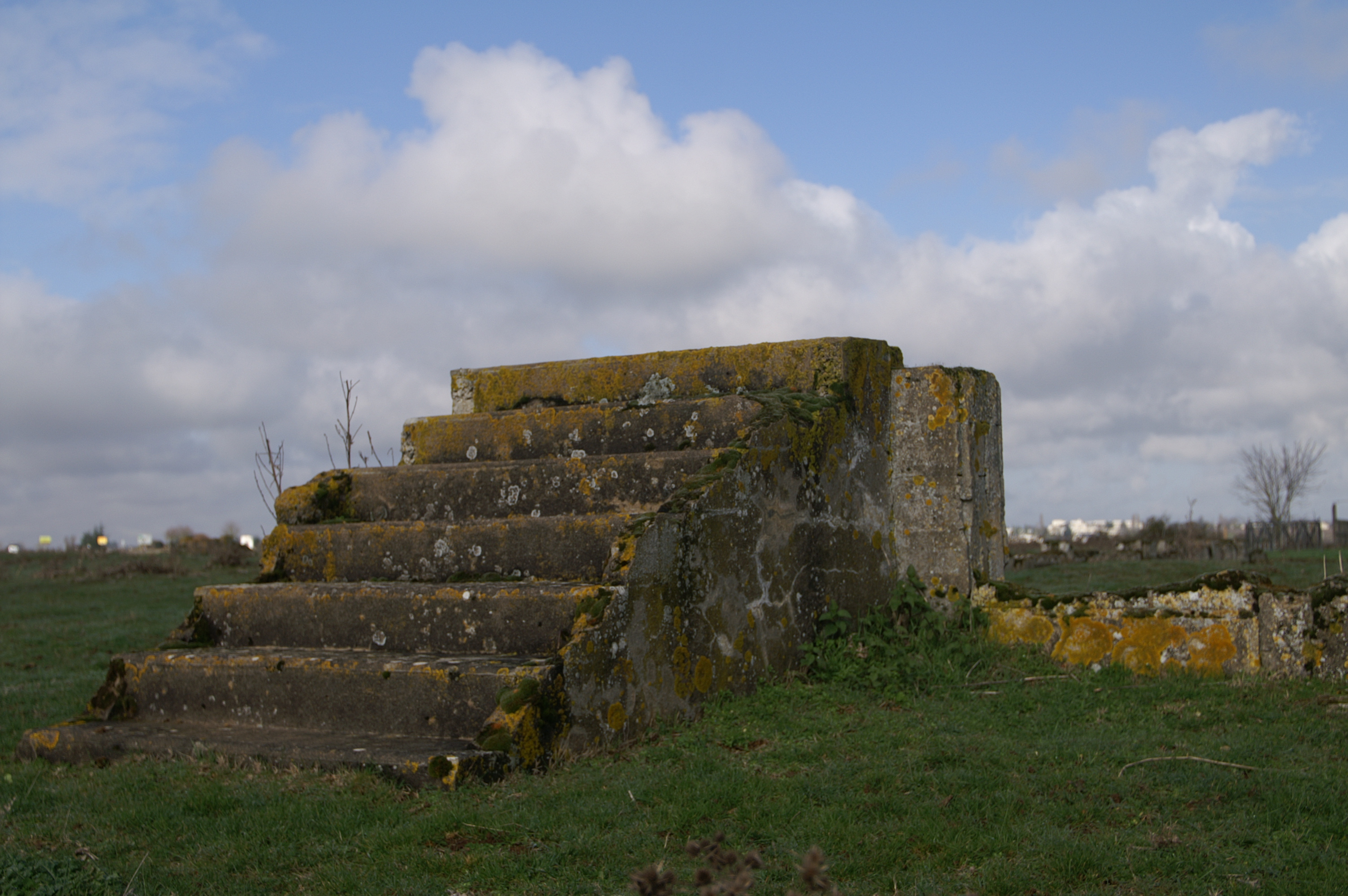 Concentration camp of Montreuil-Bellay.